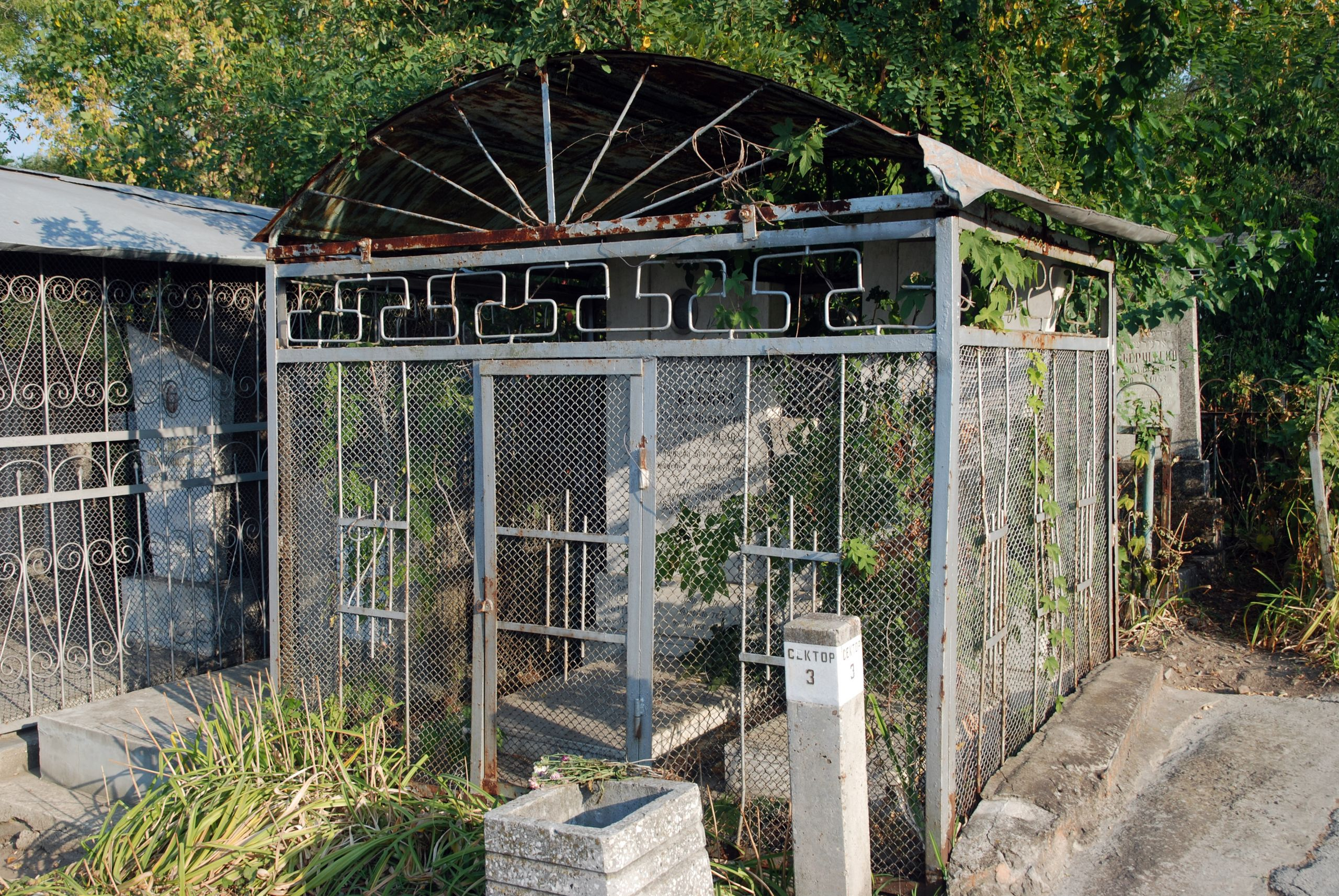 Chișinău, Jewish cemetery